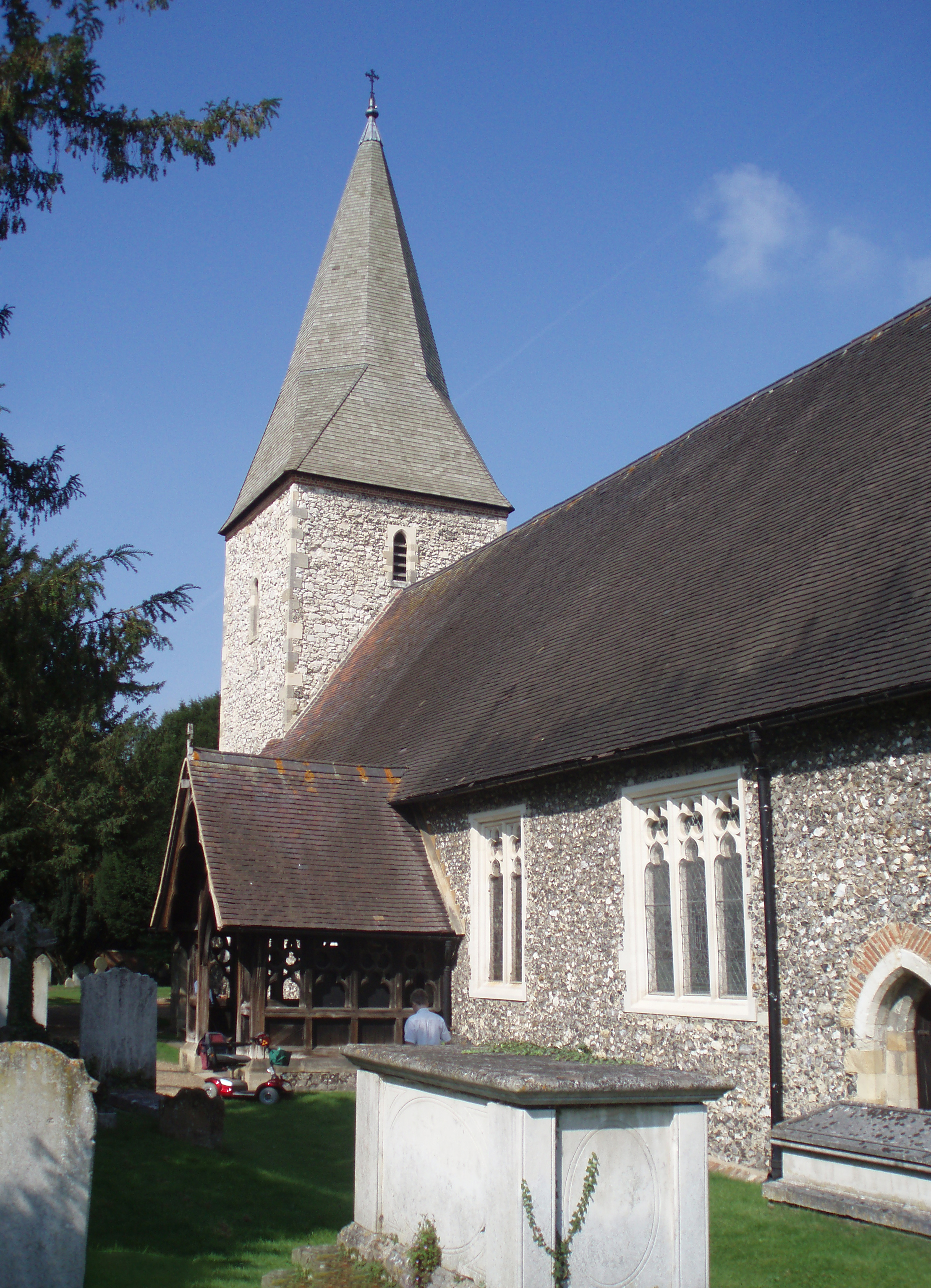 West tower, broach spire and south porch of SS Peter and Andrew's parish church, Old Windsor, Berkshire, seen from the southeast